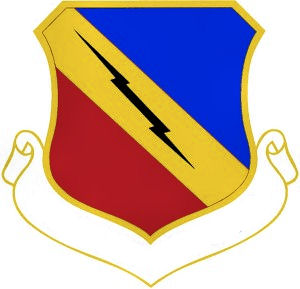 Emblem of the Fighter Wing